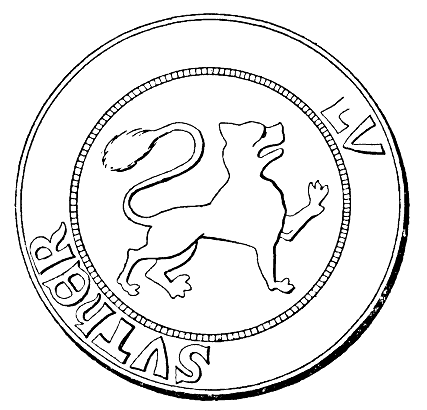 Söderköping's old seal (1923)